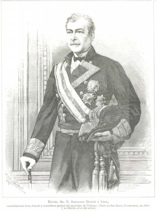 Excmo Sr. D. Santiago Durán y Lira, contraalmirante de la Armada y comandante general del apostadero de Filipinas (nació en San Simón (Pontevedra), en 1818; falleció en Manila, el 21 del actual.